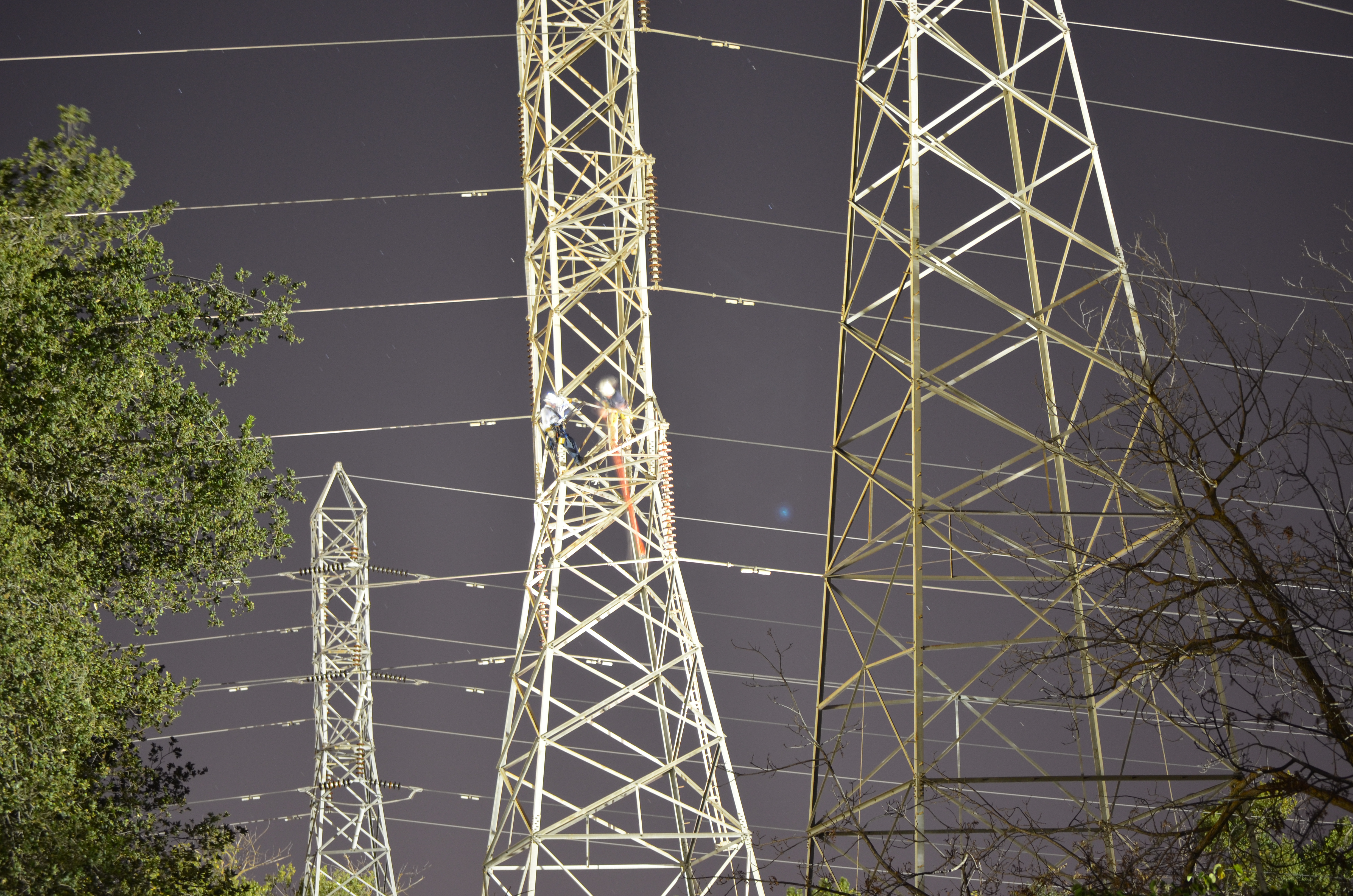 Workers from Western Area Power Administration de-energize high power lines Sept. 12, 2012 near the California State University-Sacramento so Corps contractors can safely install a seepage cutoff wall underneath the lines. The Corps has built more than 20 miles of seepage walls into American River levees since 2000. Areas where construction was complicated by utilities, bridges or power lines were set aside for later construction. The project is part of the American River Common Features project, a joint flood risk reduction effort between the Corps, the state’s Central Valley Flood Protection Board/Department of Water Resources and the Sacramento Area Flood Control Agency.